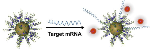 NanoFlare-based Detection Scheme